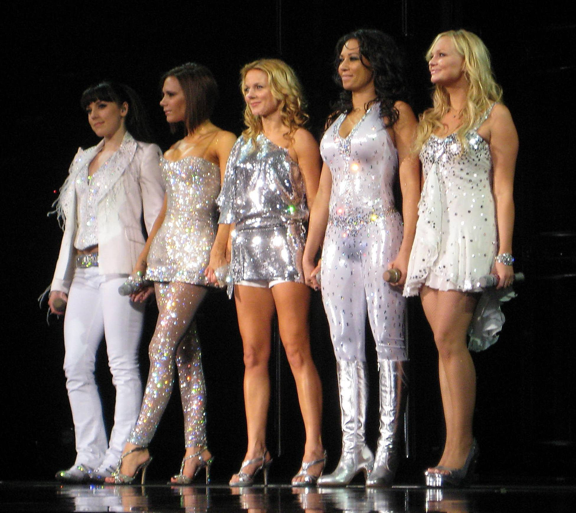 Spice Girls performing their final concert in Toronto, Ontario on February 26th, 2008